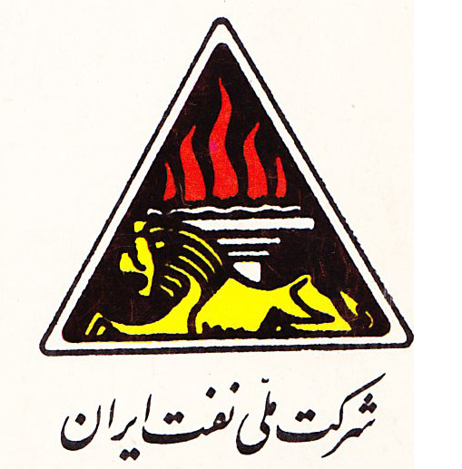 "National Iranian Oil Company" logo before revolution.